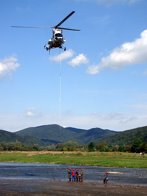 GOPR Bieszczady Group